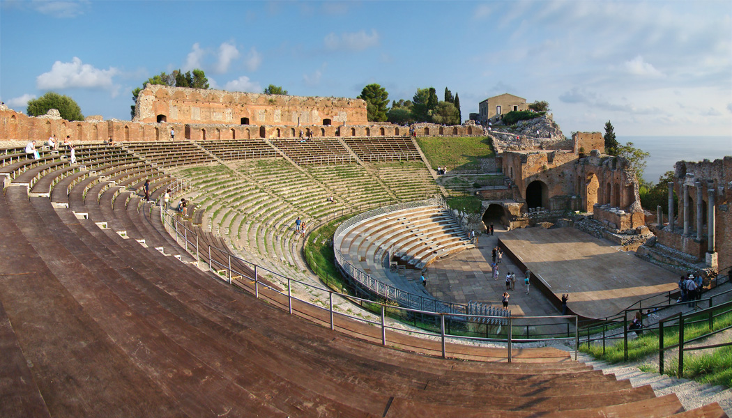 Ancient Greek-Roman theatre, Taormina, Sicily, Italy.